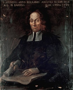 Portait of the composer Giuseppe Antonio Bernabei